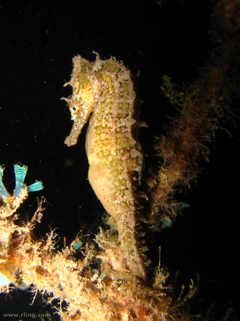 White's Seahorse (Hippocampus whitei). Clifton Gardens, Mosman, NSW